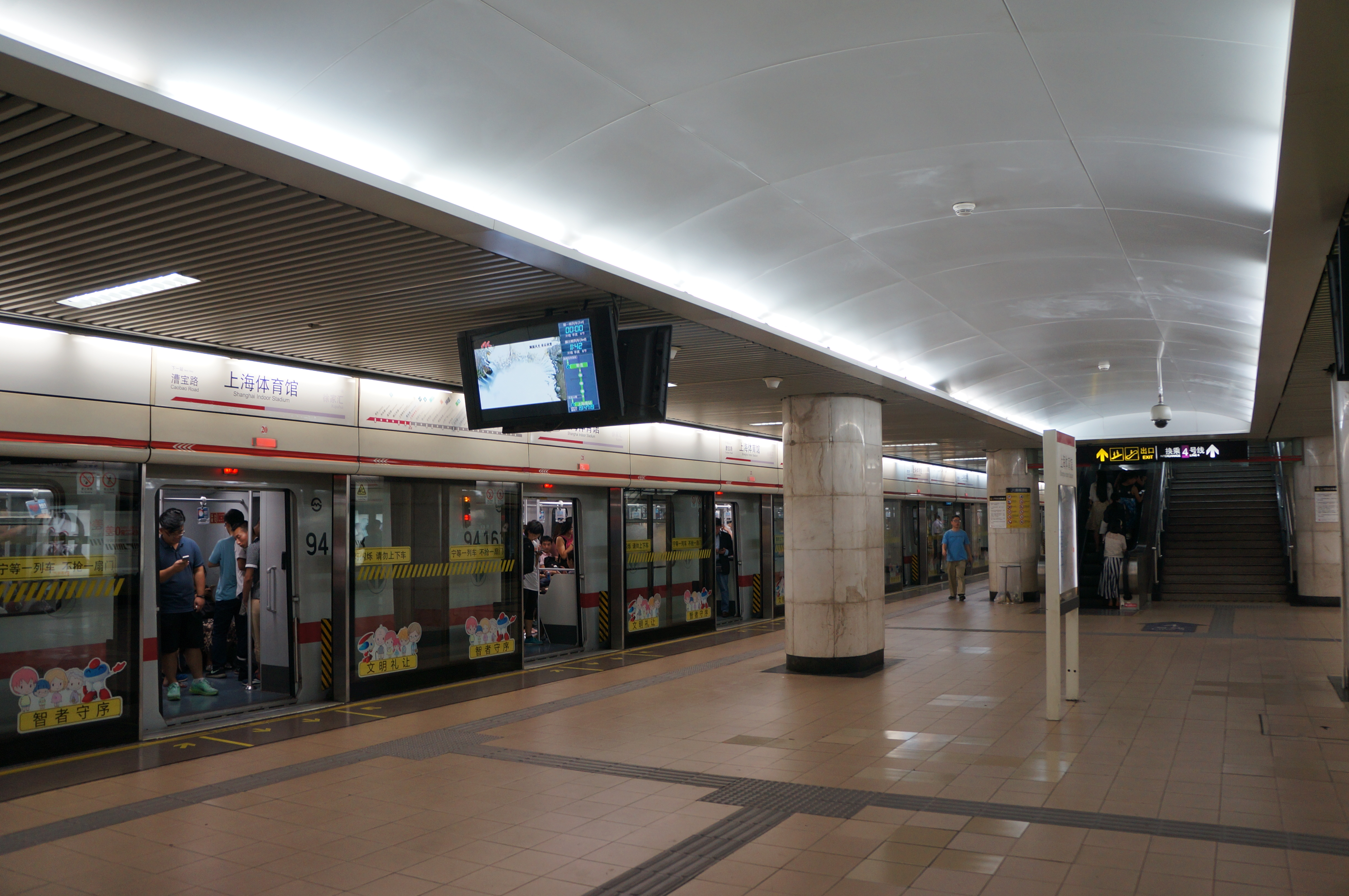 201609 Platform for Line 1 of Shanghai Indoor Stadium Station